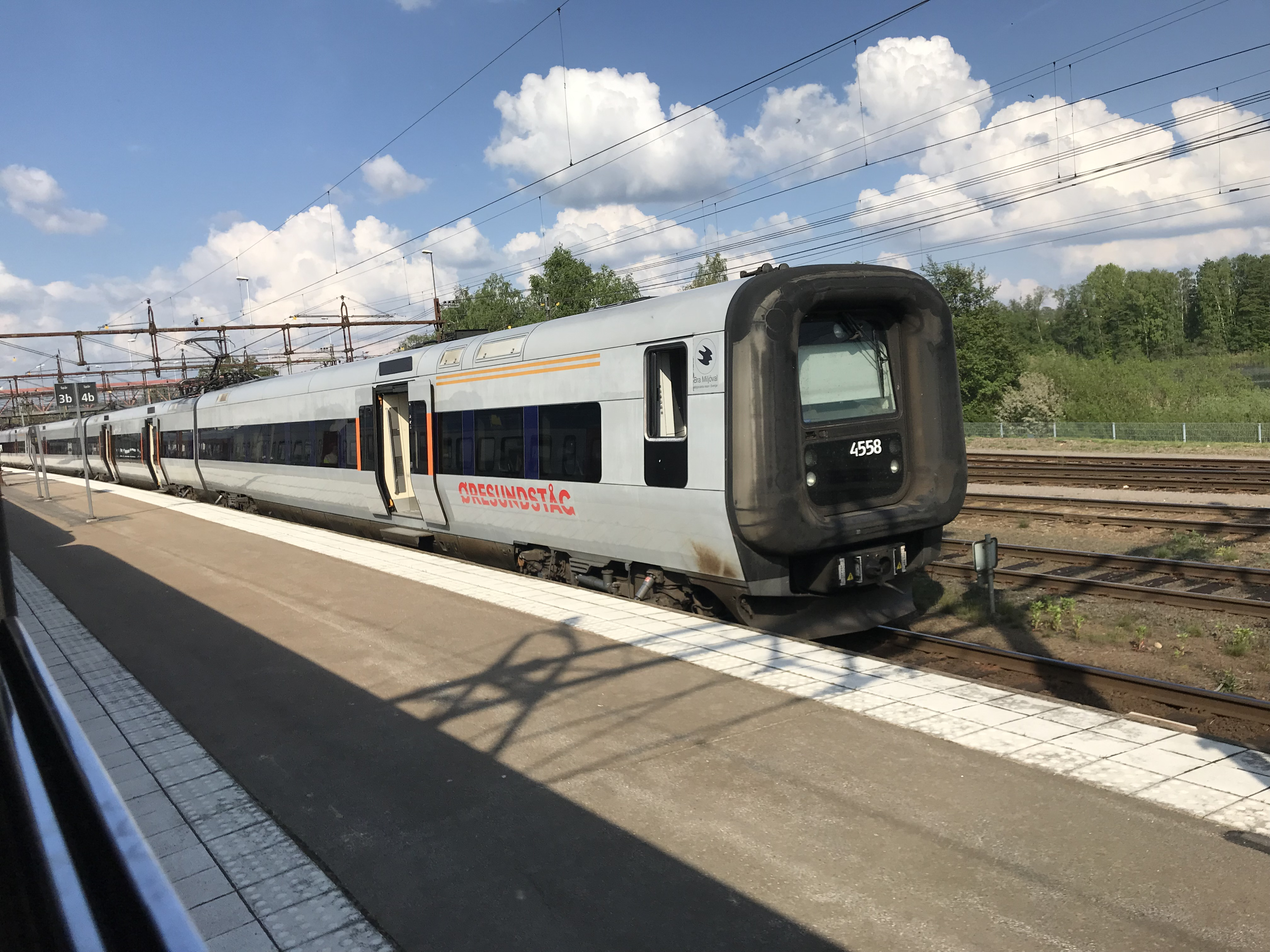 An X31-train at Alvesta station in Sweden on May 20, 2019